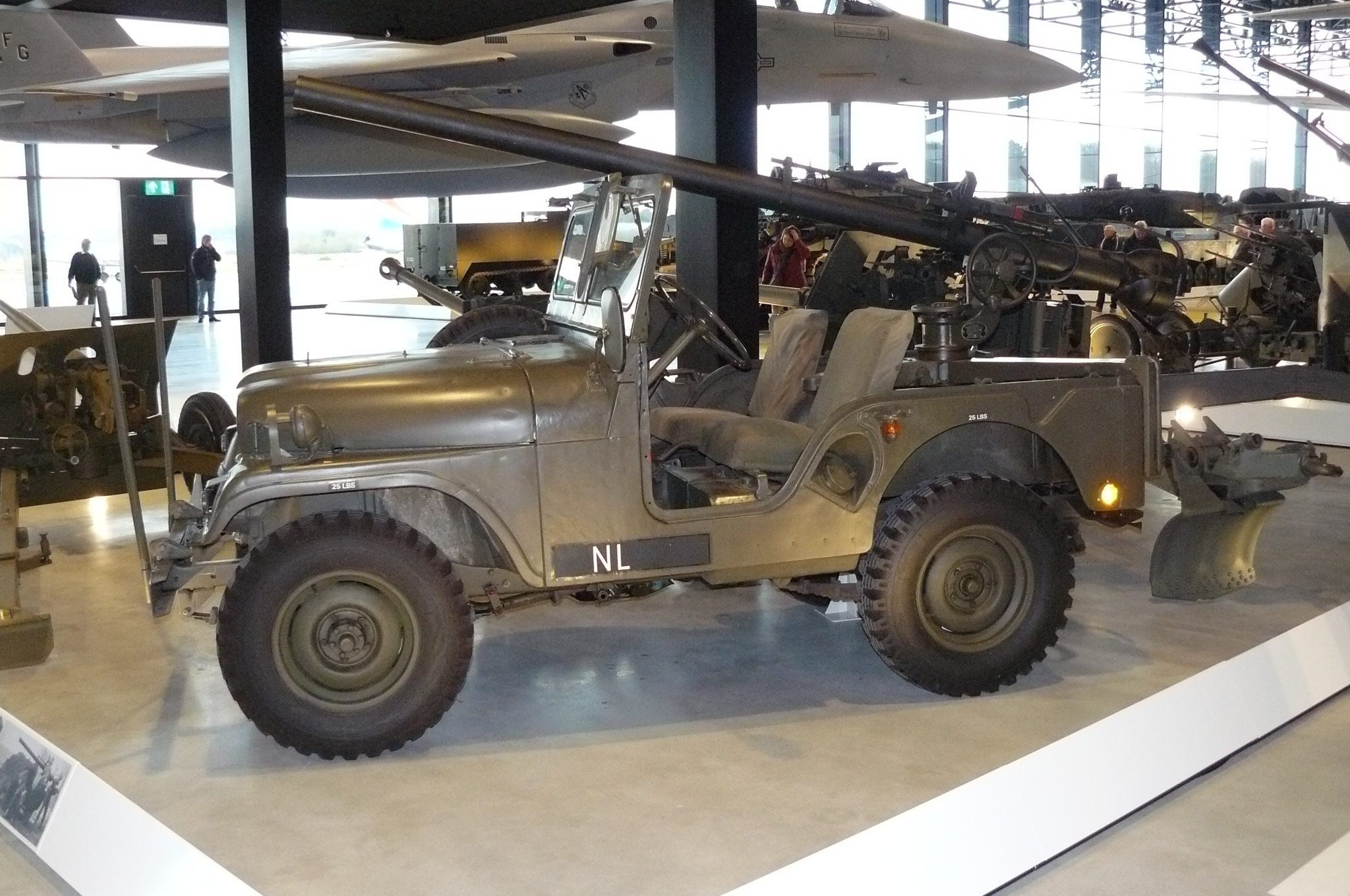 Dutch Nekaf jeep with recoilless anti-tank gun. Seen at Nationaal Militair Museum in Soesterberg, the Netherlands.